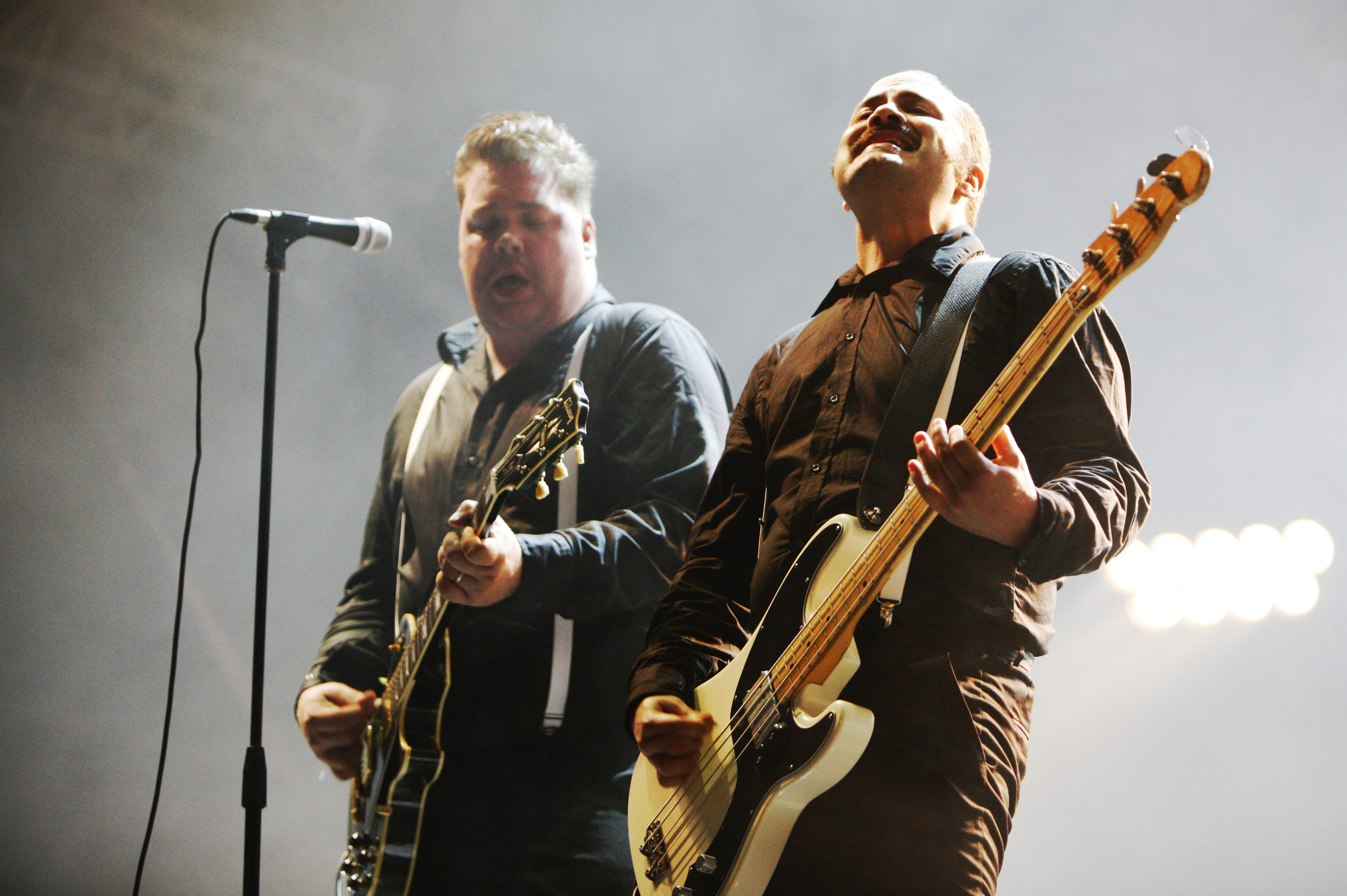 The Hives at the Eurockéennes of 2007